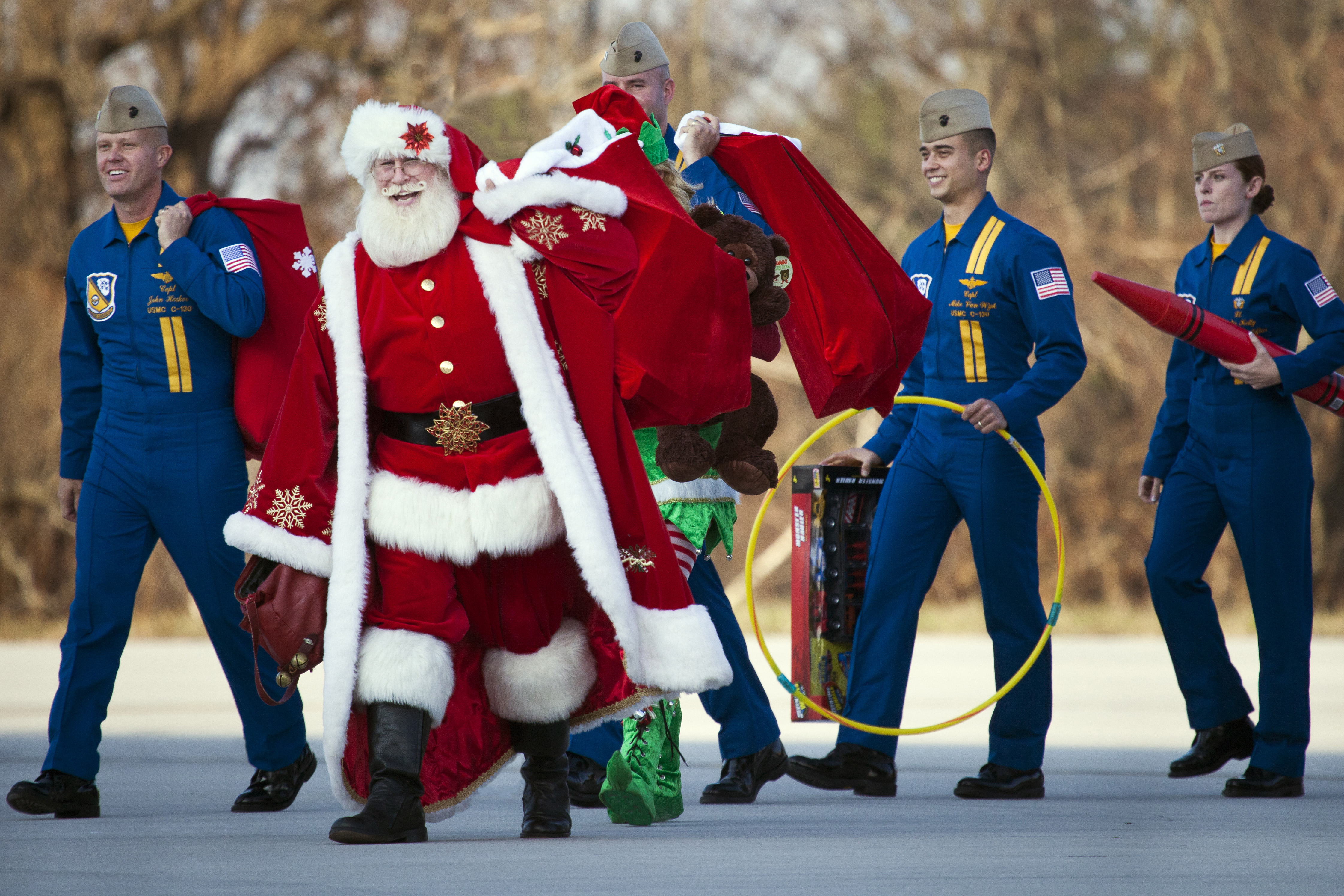 Marines with the Blue Angels and Santa bring toys for a Toys for Tots donation Dec. 3 on Joint Base McGuire-Dix-Lakehurst. The Marines brought more than $700,000 in toy and book donations on their C-130, "Fat Albert," from donation points in Atlanta and Washington, D.C. They toys were put onto trucks for distribution to points in the affected New York area.